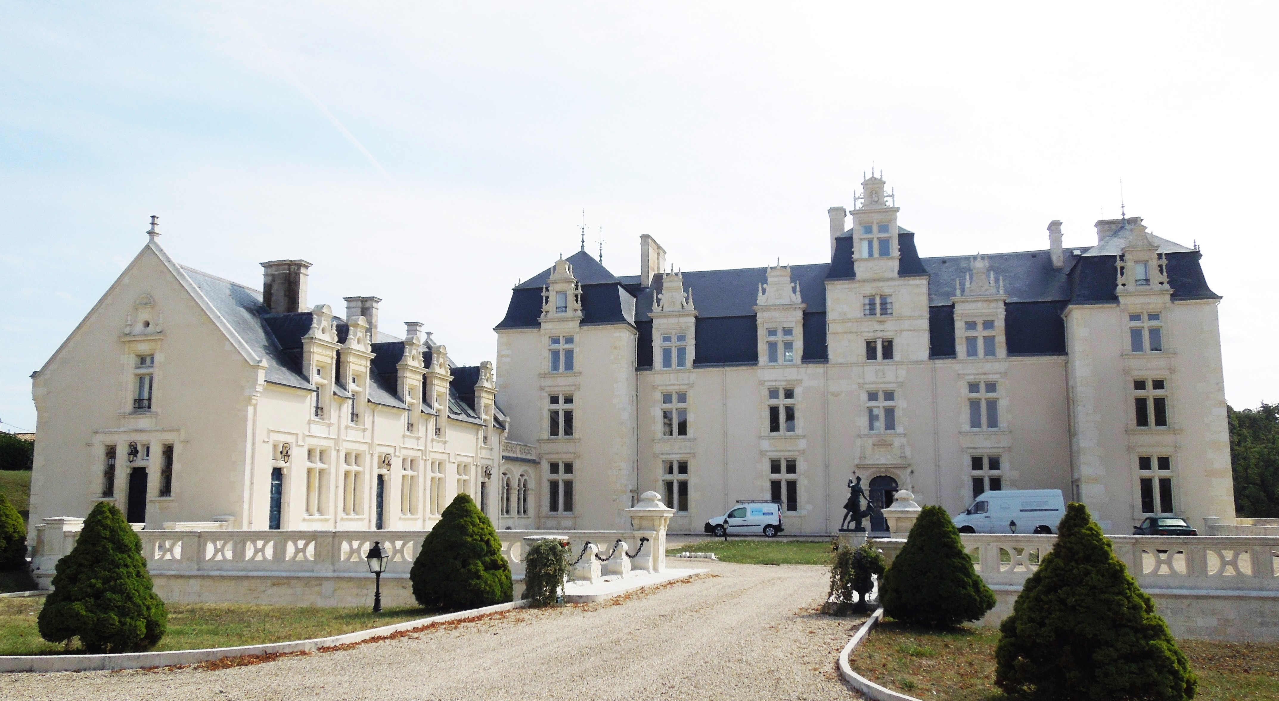 Château de Montchaude, Corps de Logis and east wing, seen from the north